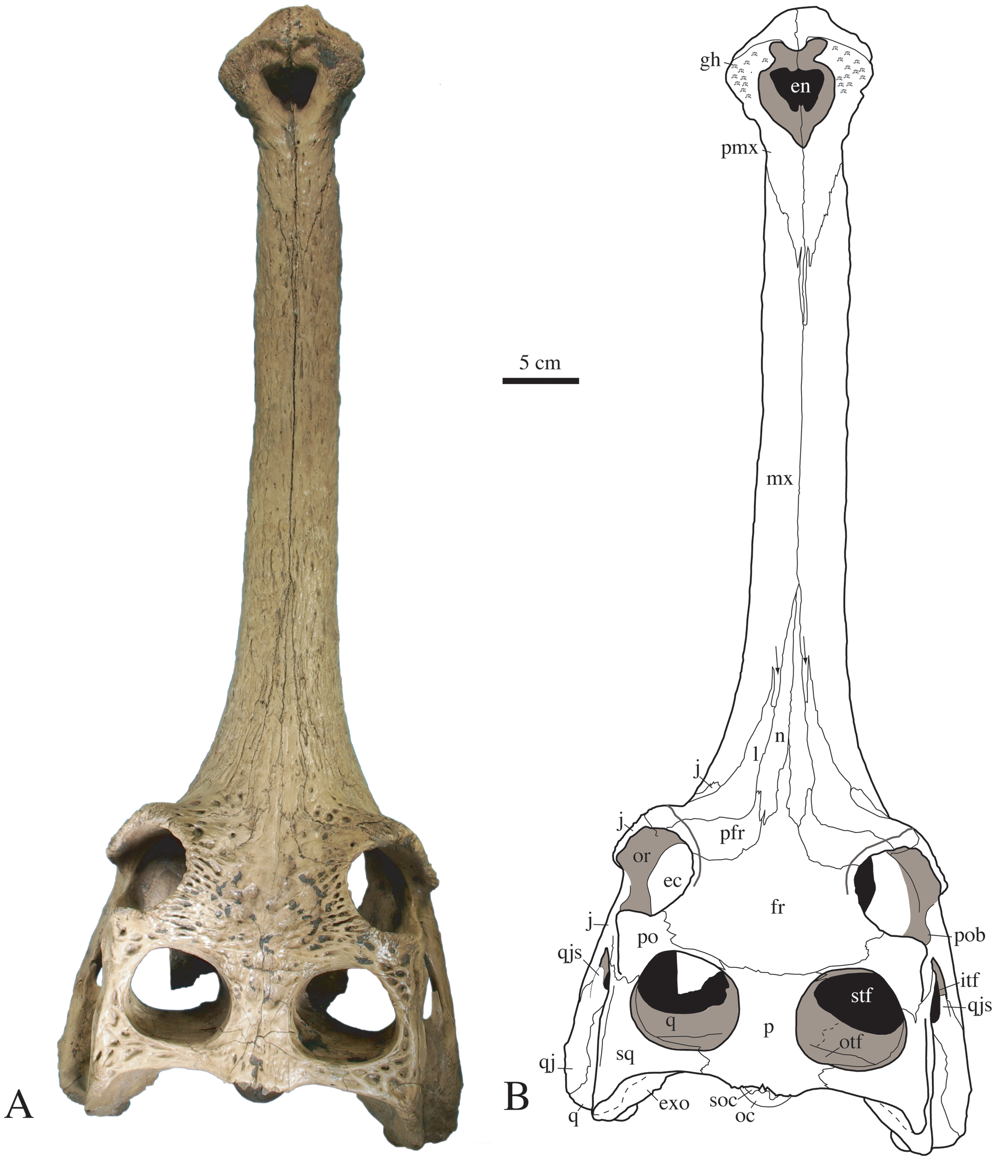 Skull of Gavialis cf. bengawanicus (DMR-KS-201202-1), from the Early Pleistocene of Khok Sung (Nakhon Ratchasima Province, Thailand), in dorsal view.